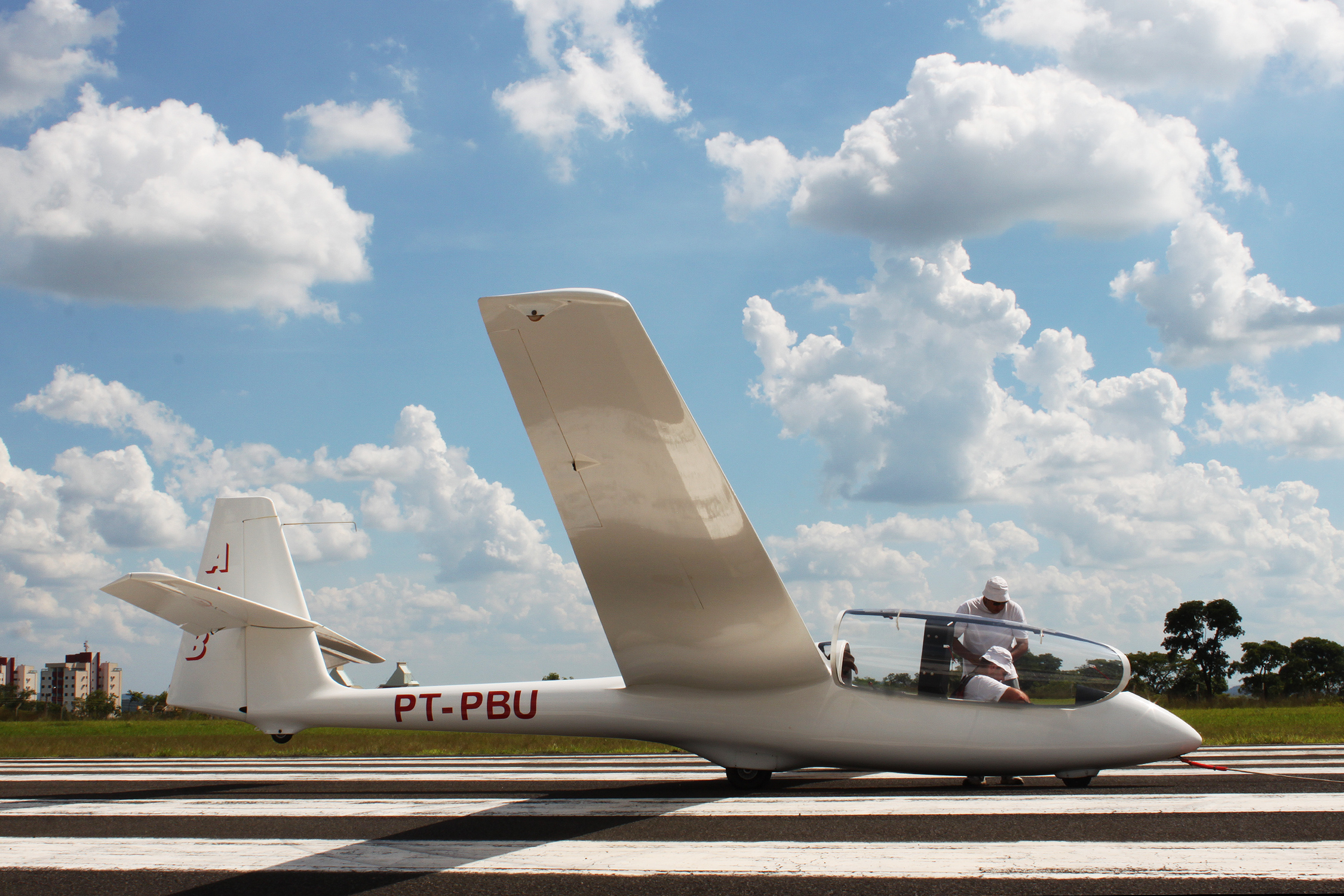 A glider in the Bauru Airport, in Bauru, São Paulo, Brazil.